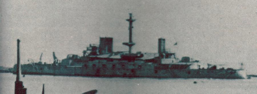 Photograph of the Italian battleship Re Umberto at Brindisi.